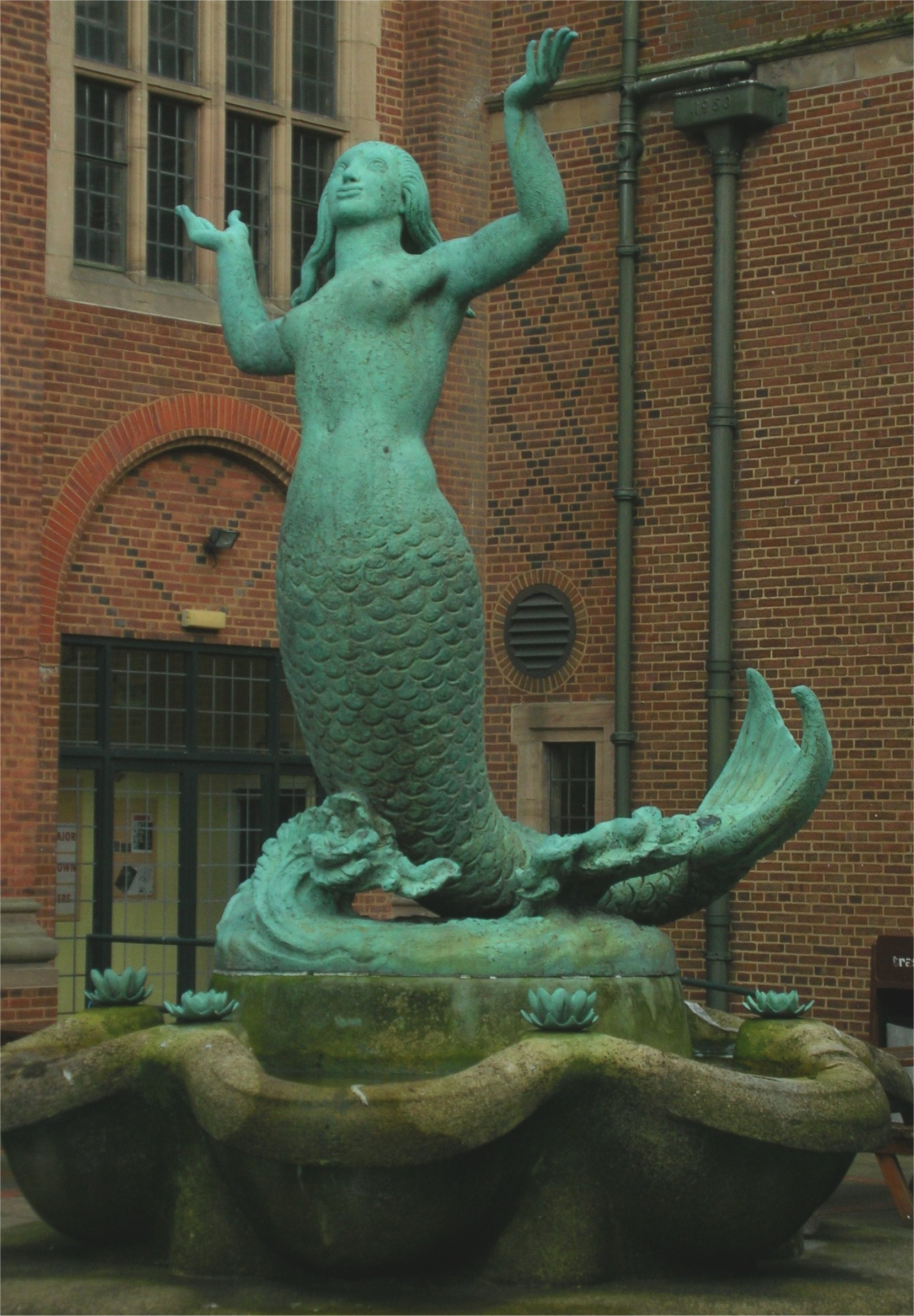 Bronze mermaid fountain outside the Guild of Students, University of Birmingham, England. By William Bloye. Photographed 21 February 2007. Oosoom